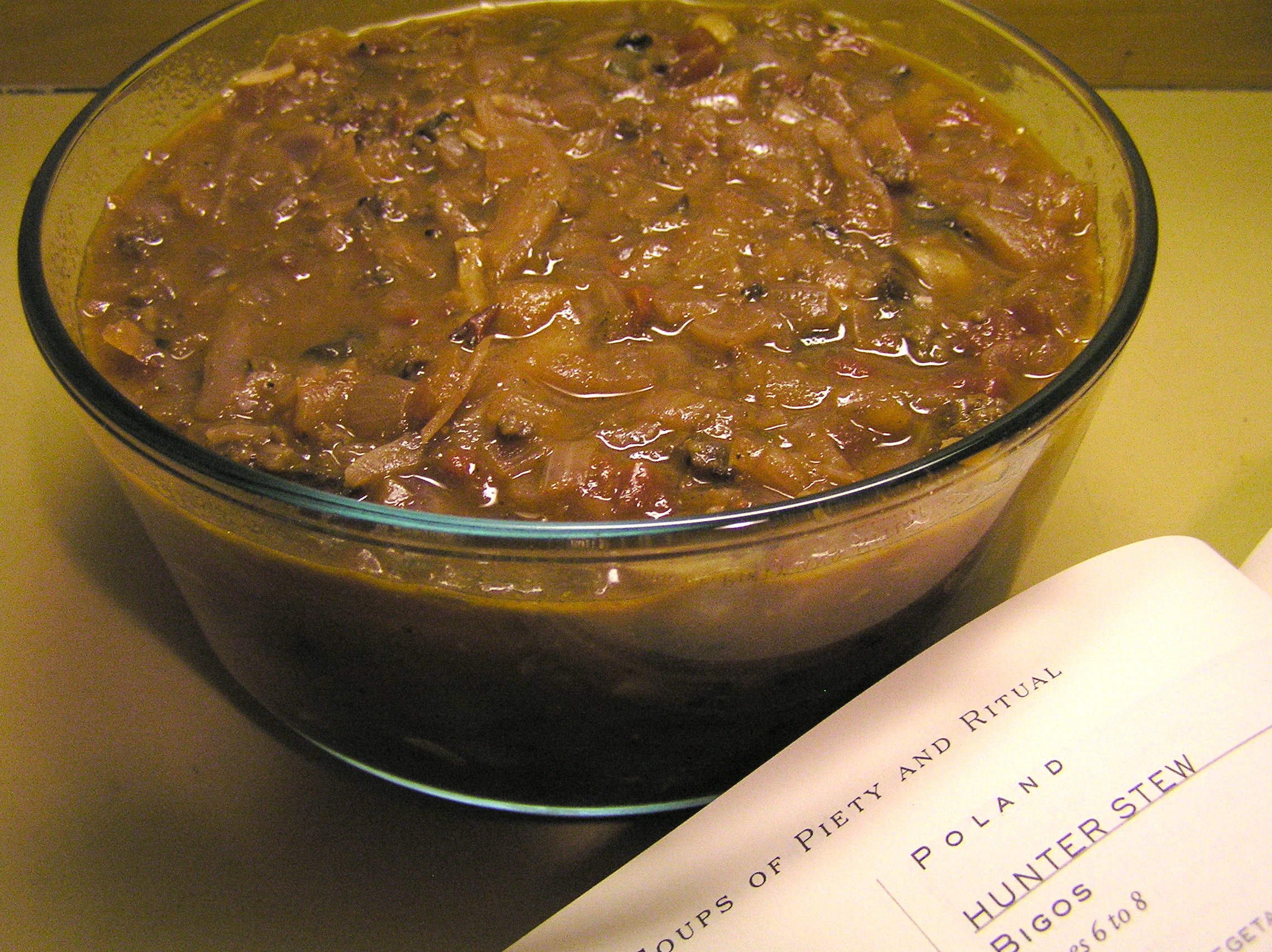 Bigos is a Polish stew with red cabbage, sausage, mushrooms, apples, and lots of good stuff.